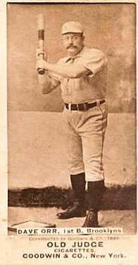 Old Judge card of baseball player Dave Orr